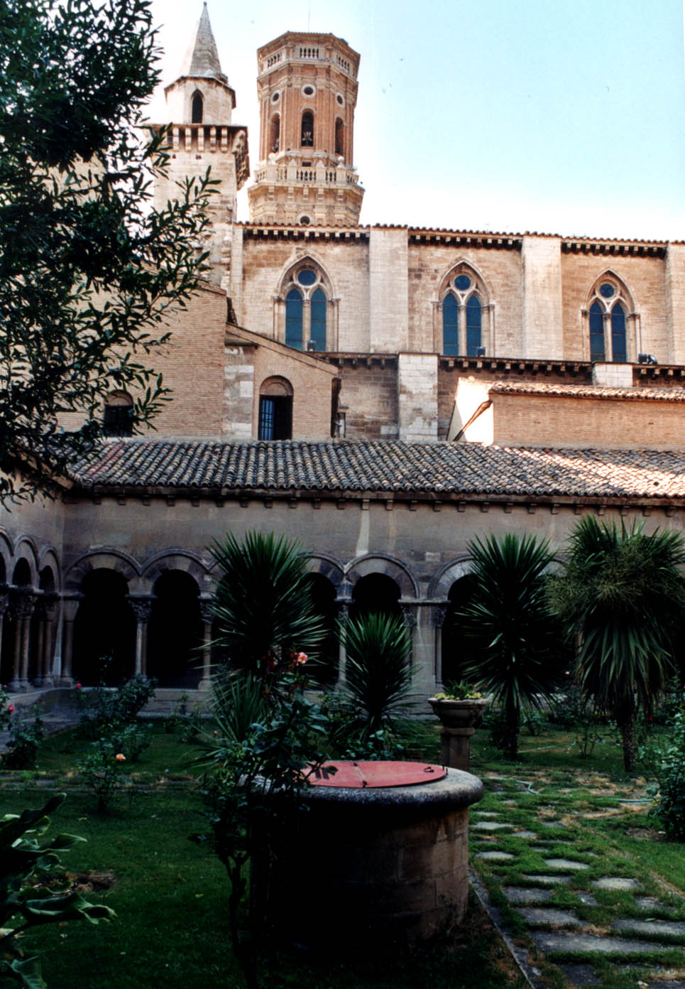 Church Tudela